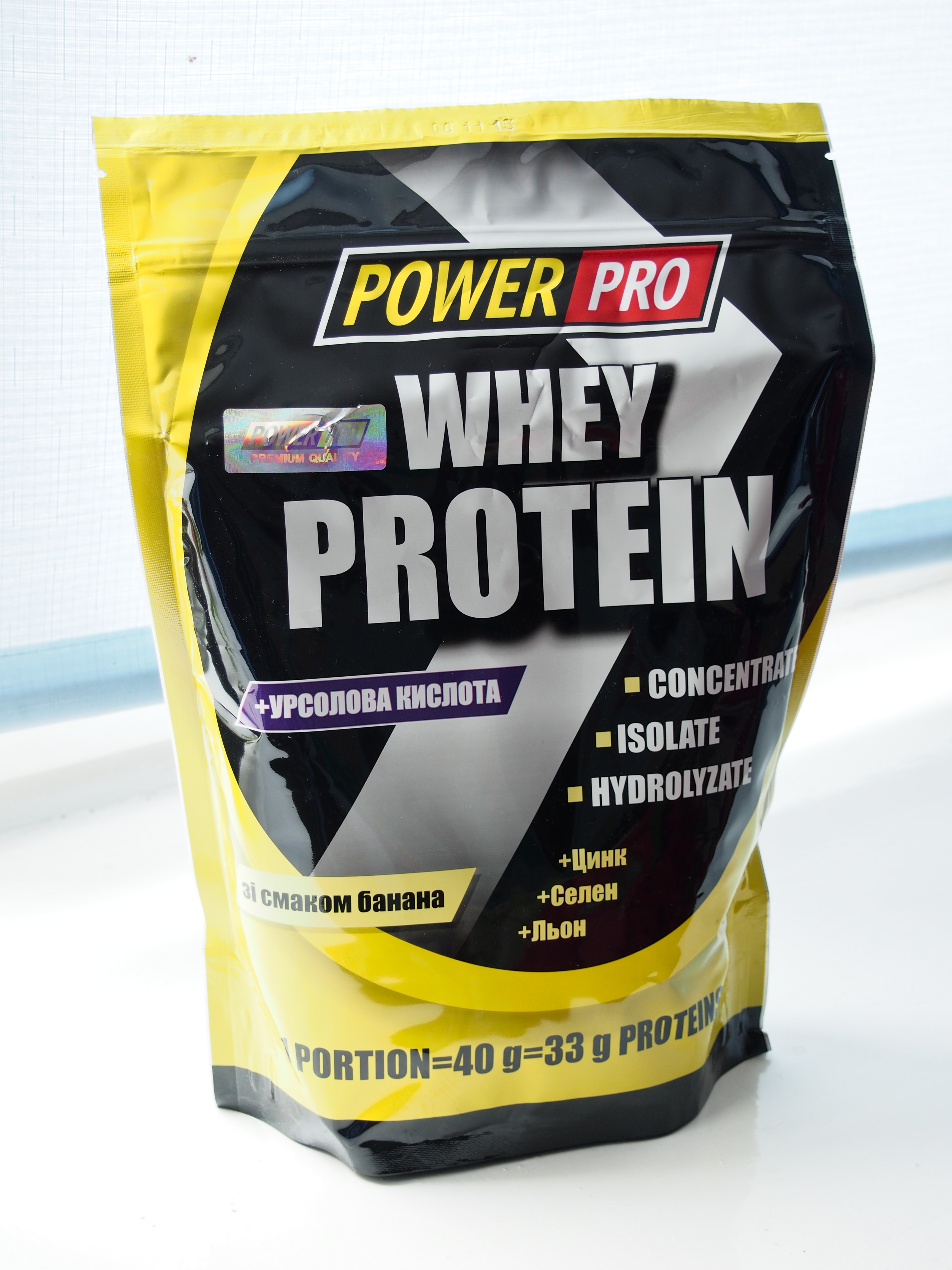 1 kg pack of whey protein by Power Pro.